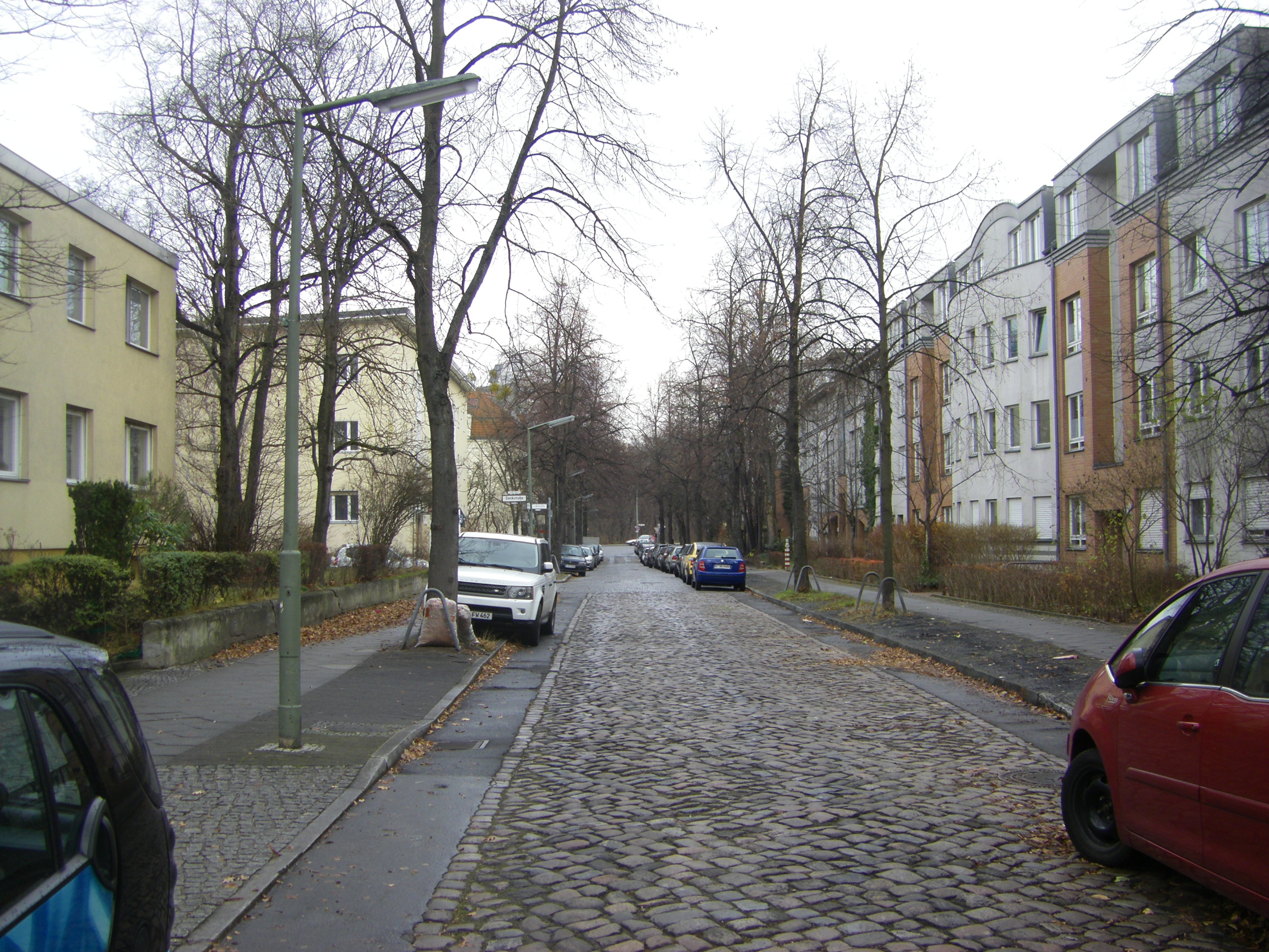 Berlin-Steglitz Buhrowstraße